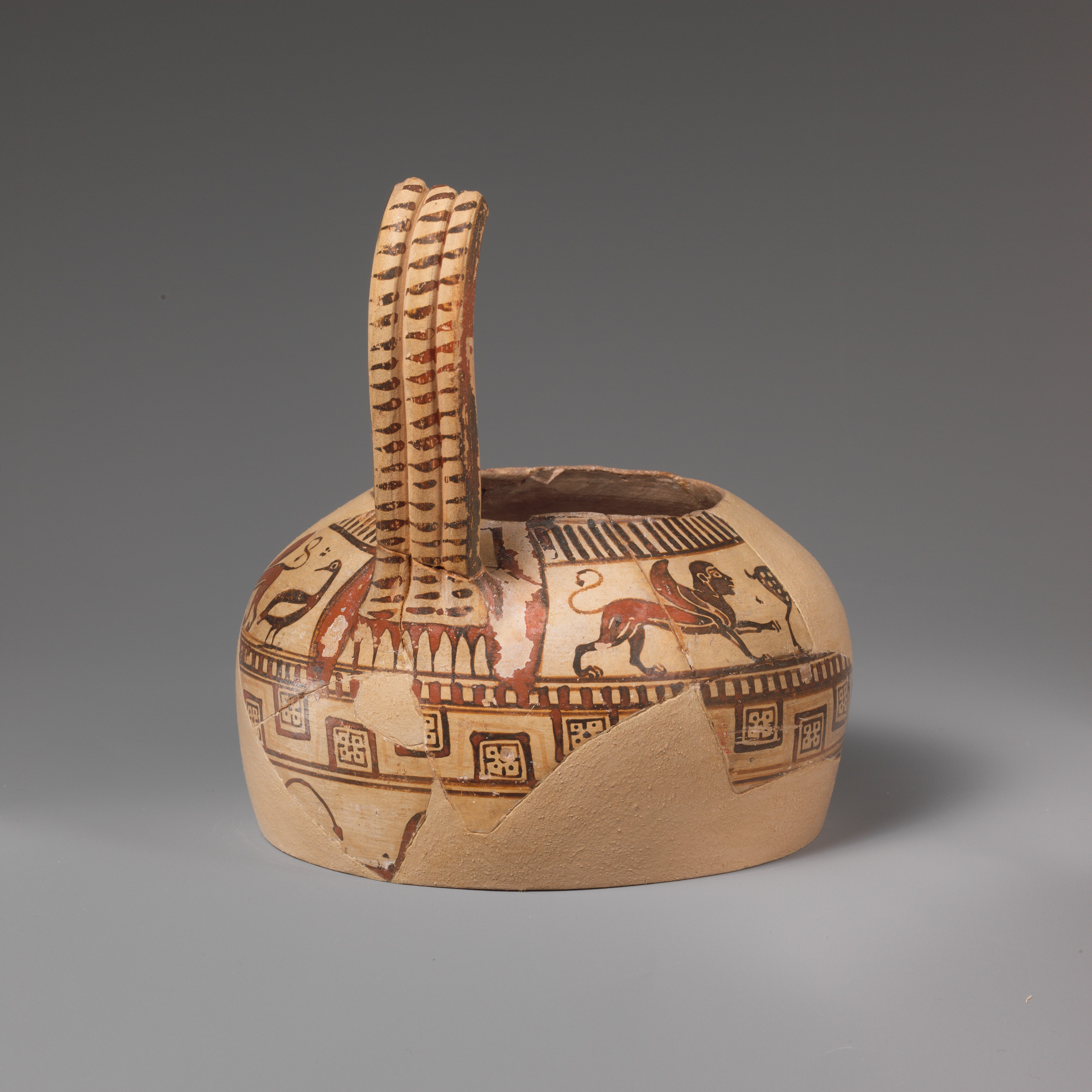 On the shoulder, deer attacked by sphinxes and griffins, water birds; On the body, bull attacked by lion. This fine fragment represents an early phase in the development of Fikellura pottery. In the animal groups as well as the drawing, there is a vitality that later subsides. The name Fikellura derives from a site on the island of Rhodes to which this fabric has been attributed. It is now established that the center of production was Miletus.